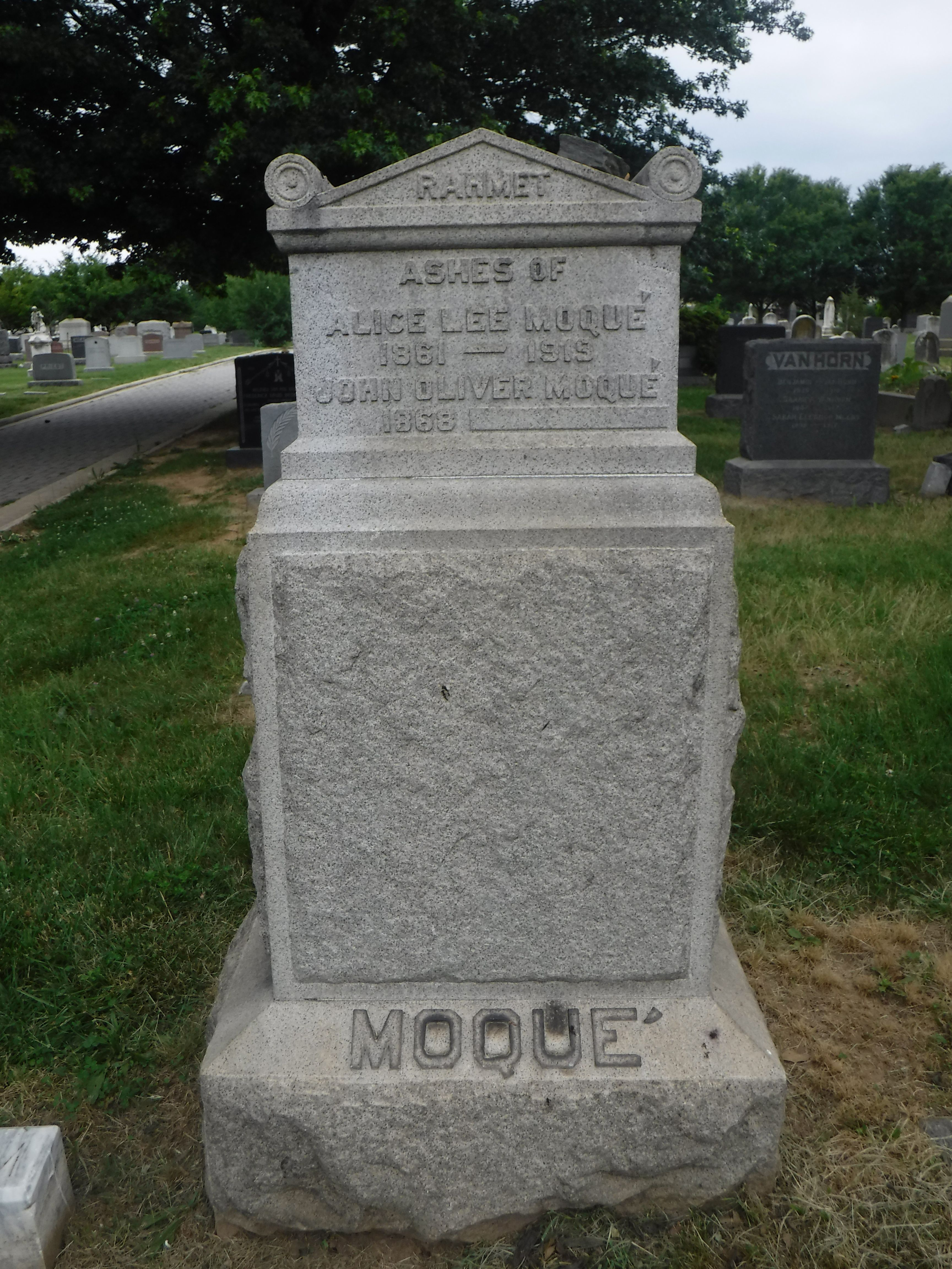 Gravestone (front) of Alice Lee Moqué, in the Washington Congressional Cemetery, Washington, D.C. Inscription (front, original in all caps) Rahmet Ashes of Alice Lee Moqué 1861-1919 John Oliver Moqué 1868 [blank] Moqué Note: Rahmet is the Turkish word for "Mercy" On the back of the tombstone (not shown), an inscription reads: Ashes of Chas. Hornor Snelling 1887-1907 Next to the tombstone, on either side are white marble blocks with the letter M.